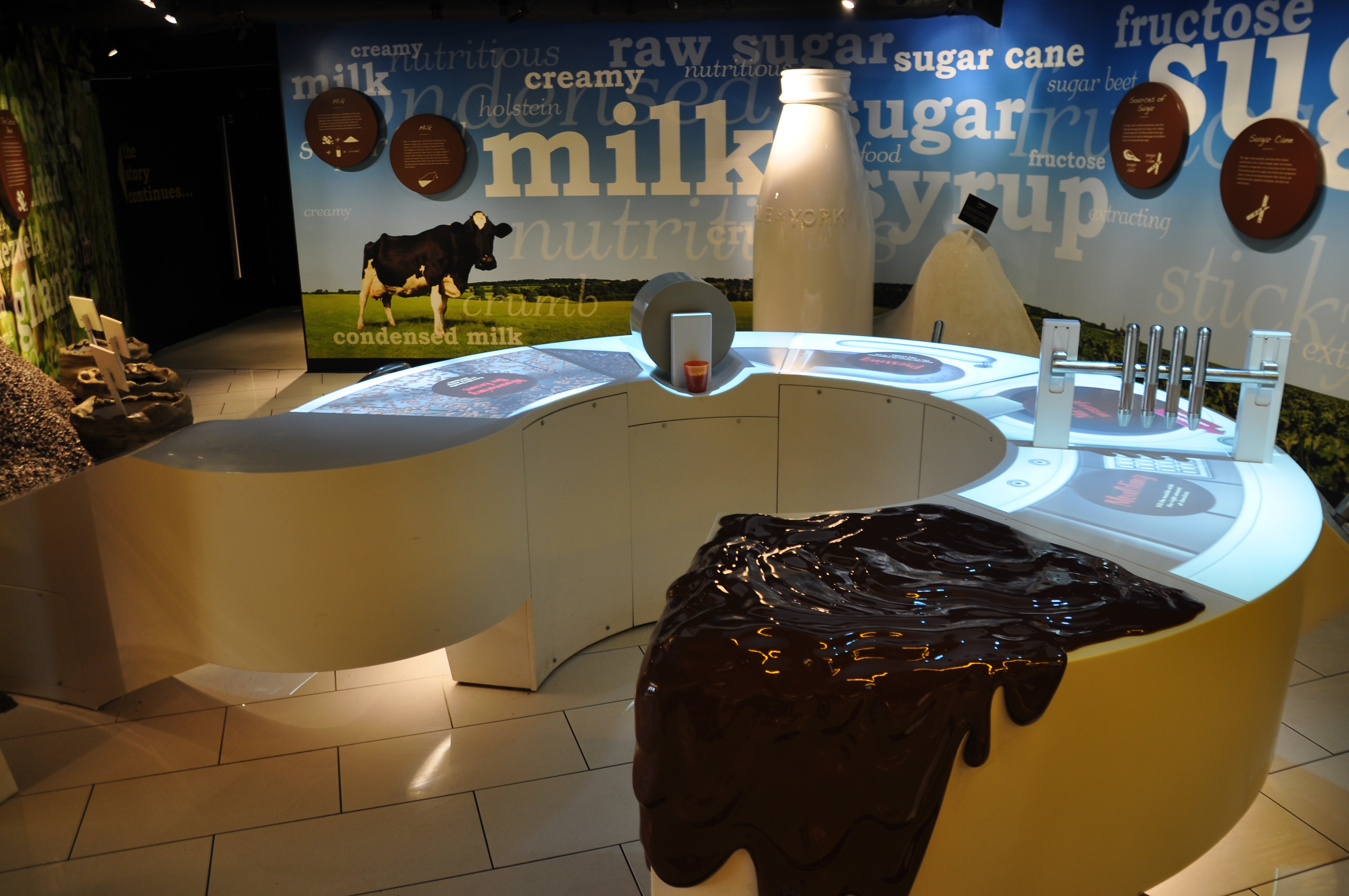 York's Chocolate Story